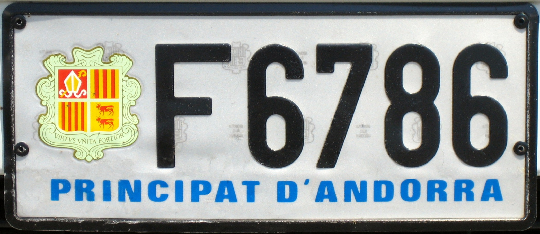 license plate of Andorra